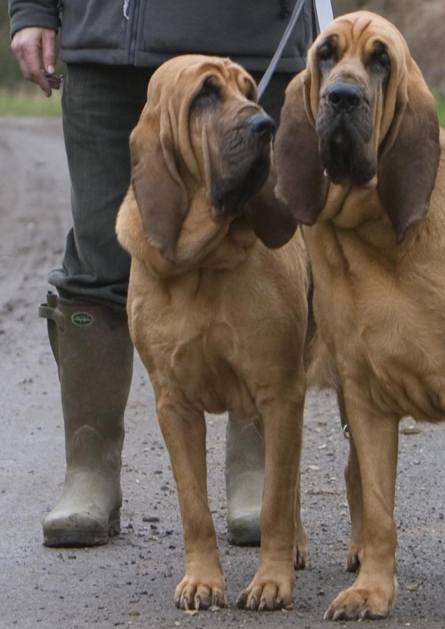 The Bloodhound Club Trials, Senior Stake, Alton, 28 February 2008